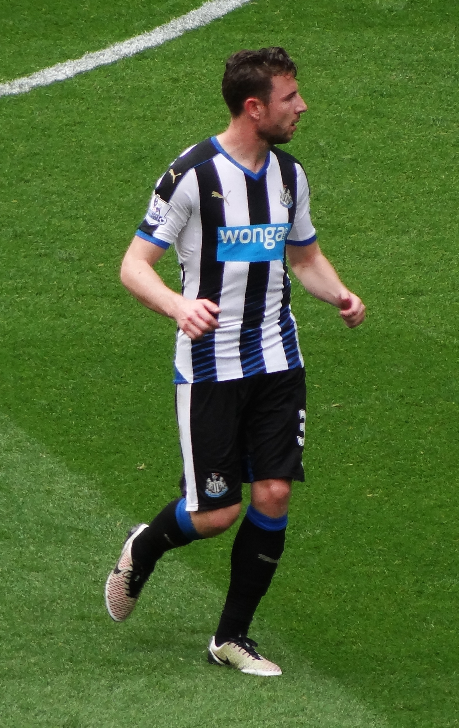 Aston Villa v Newcastle United, 7/5/2016